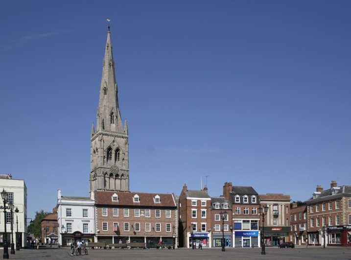 Market Square, Newark on Trent, Nottinghamshire, England, with the tower and spire of St Mary Magdalene parish church